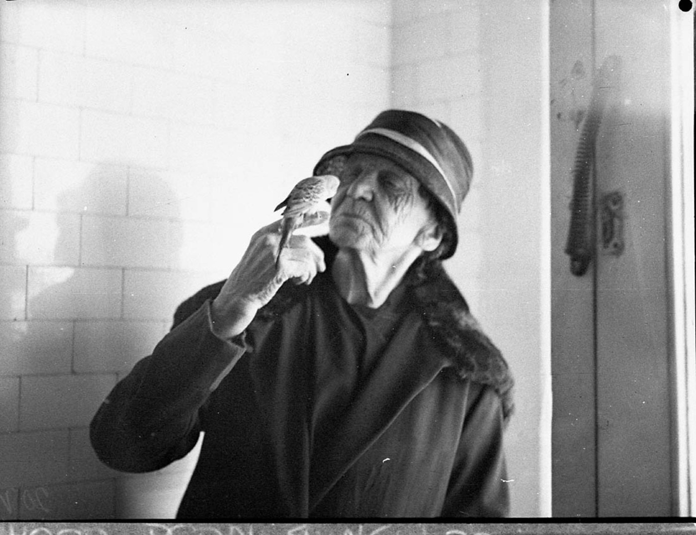 Lovebird